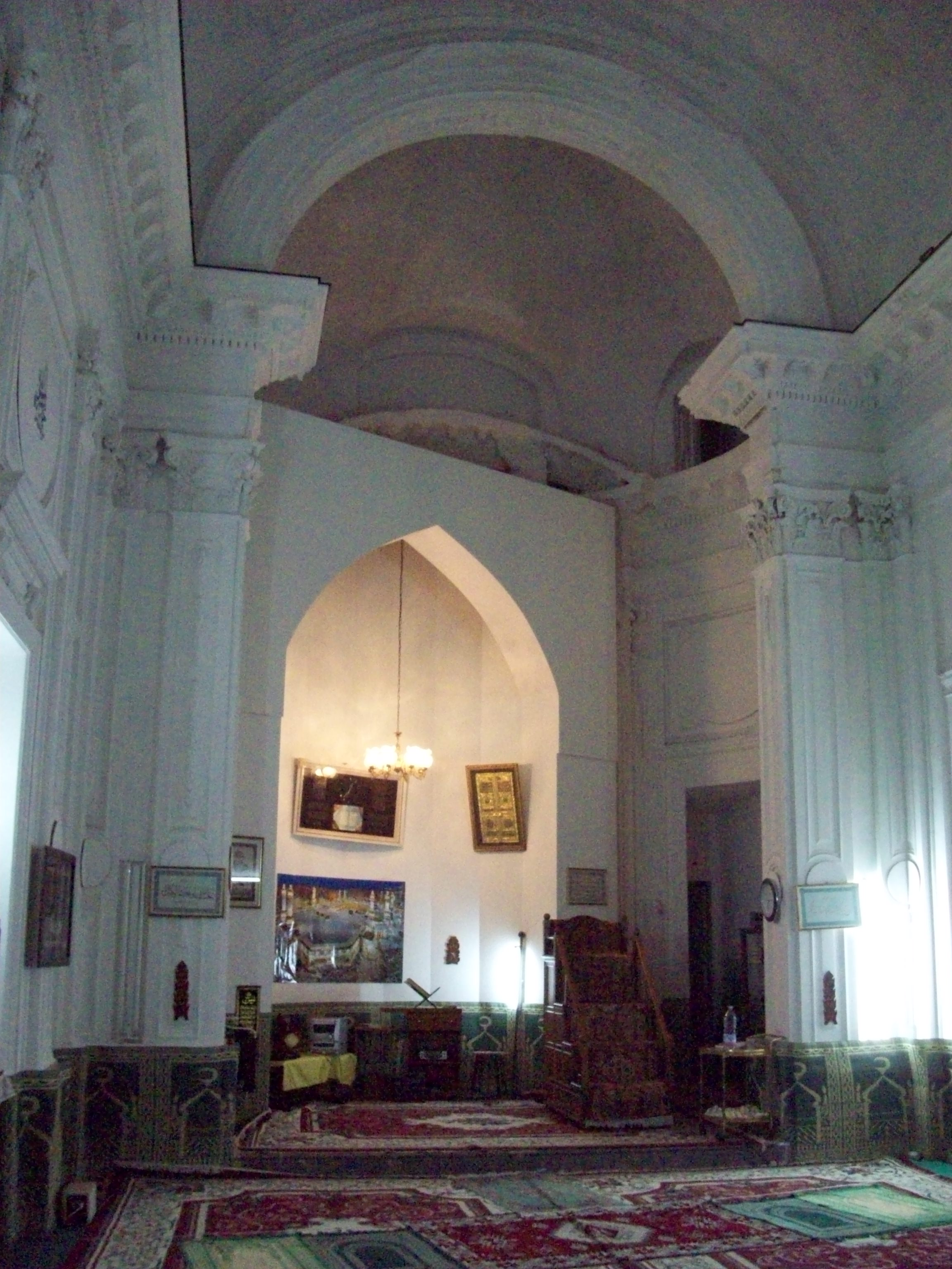 Tunisian Mosque in Palermo, Italy